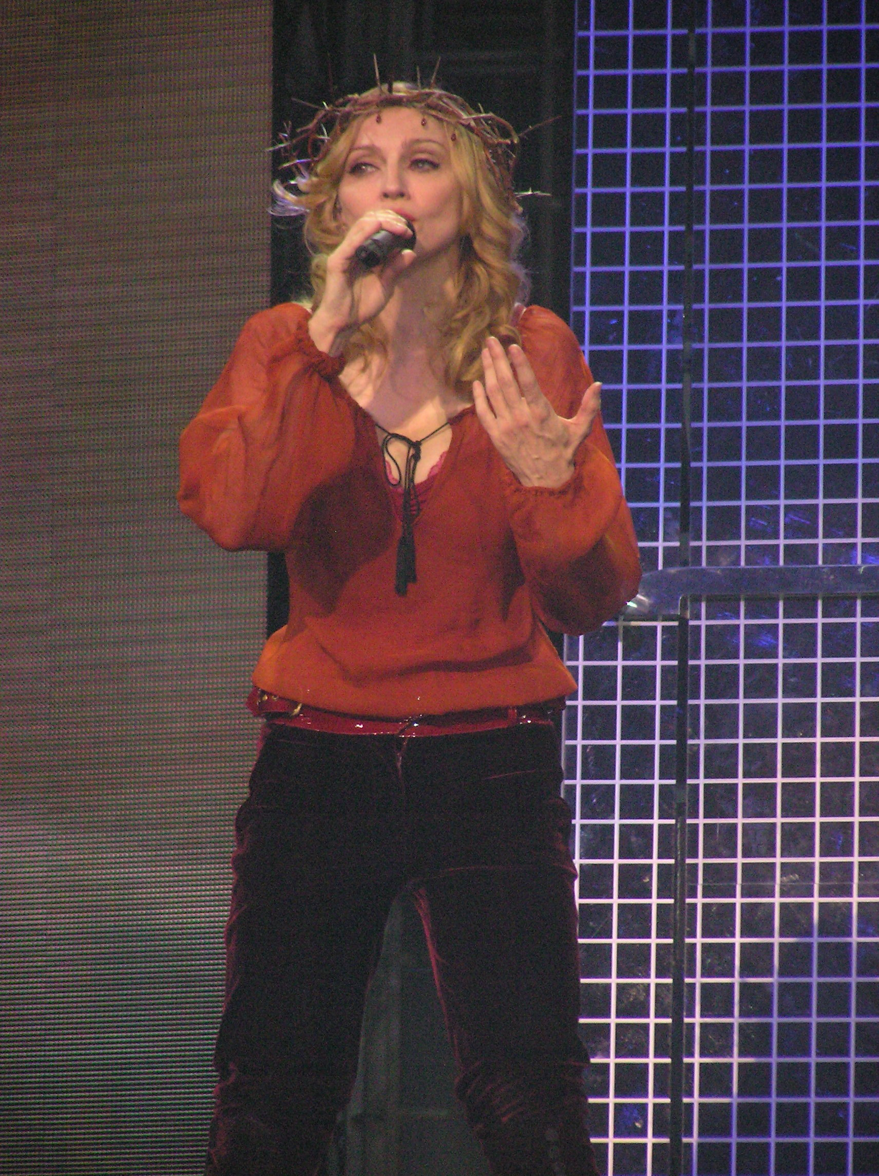 Madonna concert in Fresno